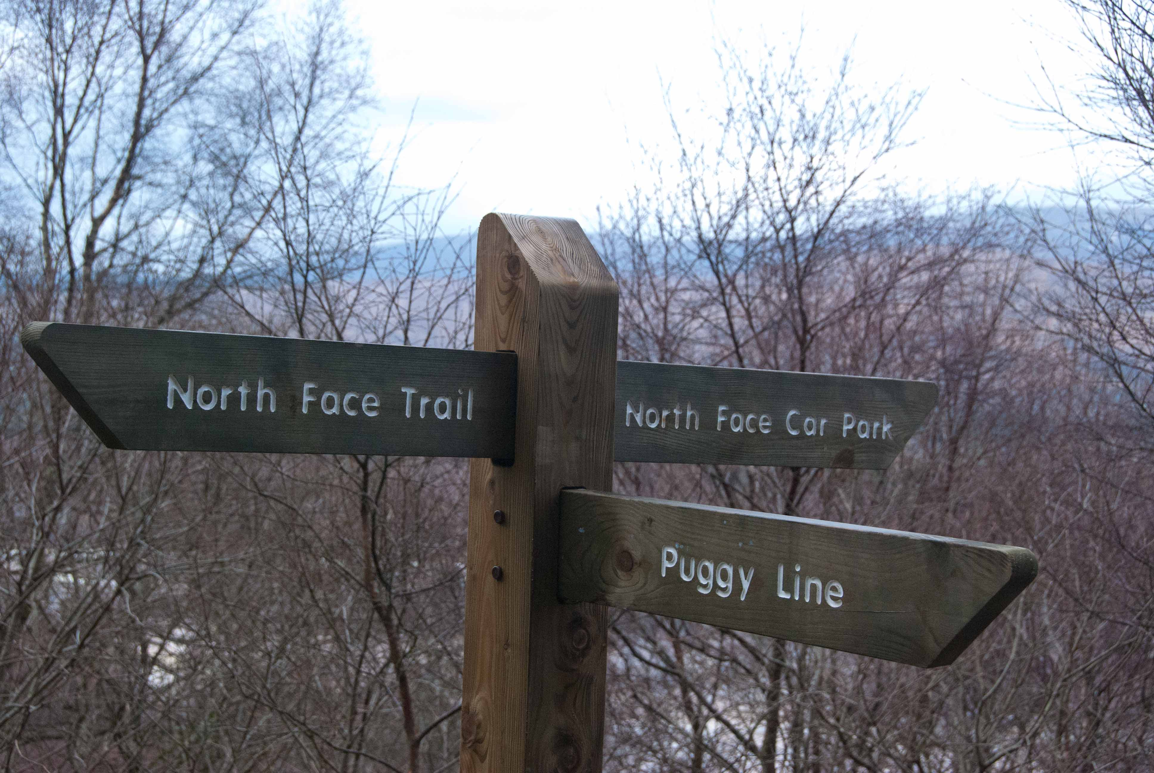 Signage on the path from the North Face Car Park to Ben Nevis and CMD